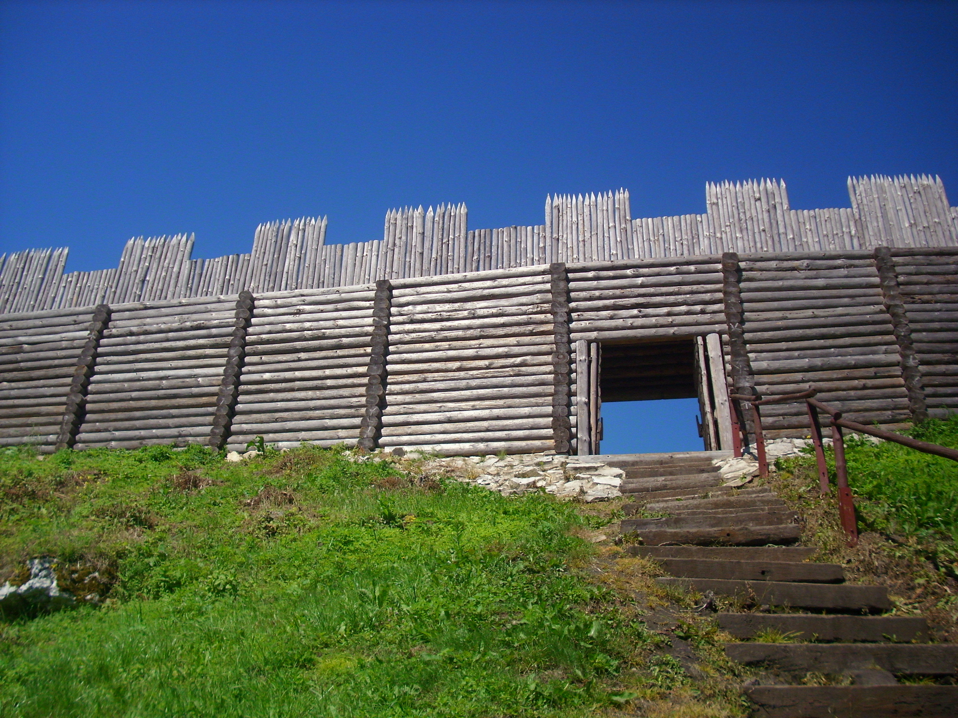 Mountain Birów , palisades fort.